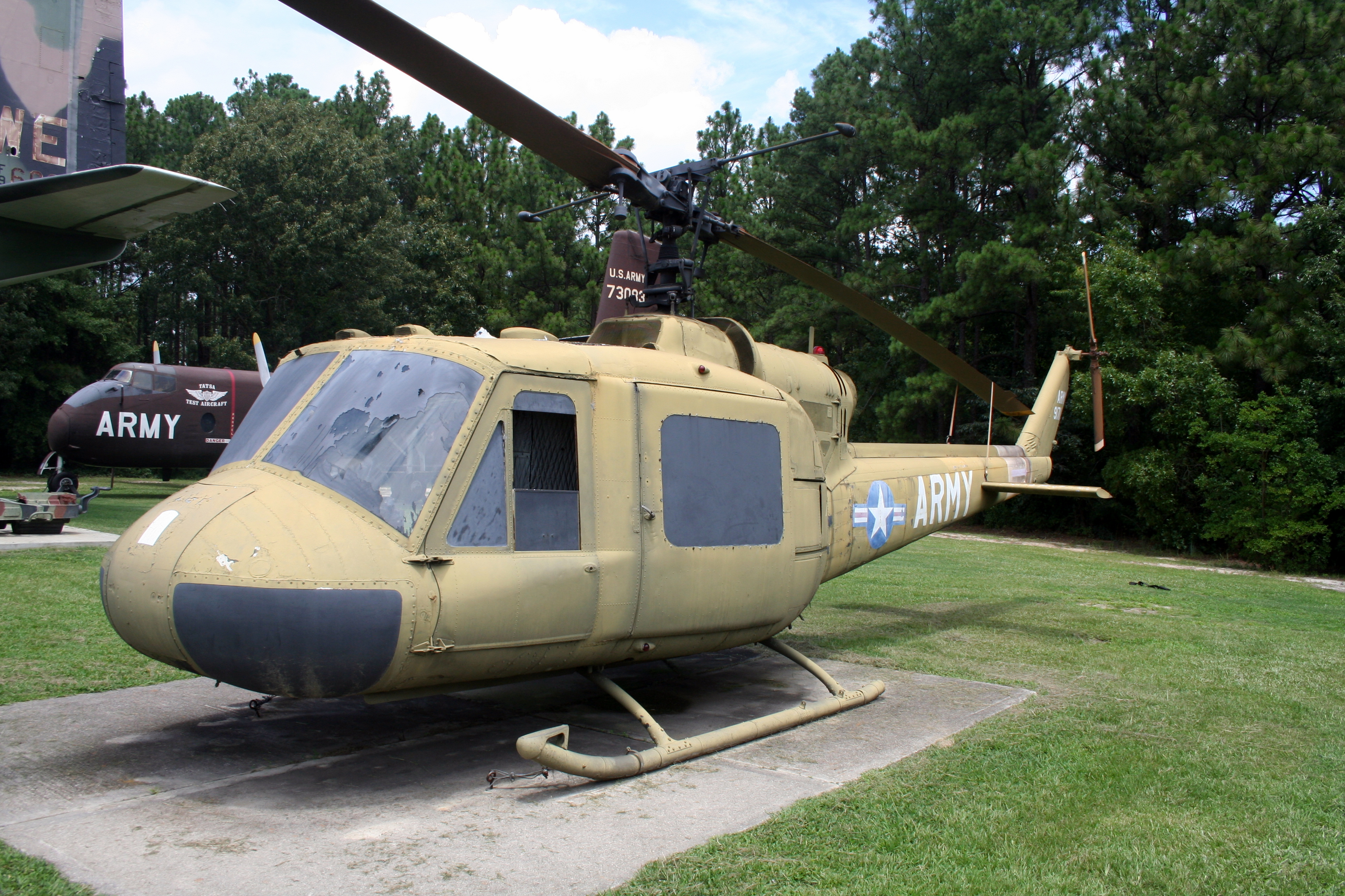 static aircraft display behind 82nd Airborne Division War Memorial Museum